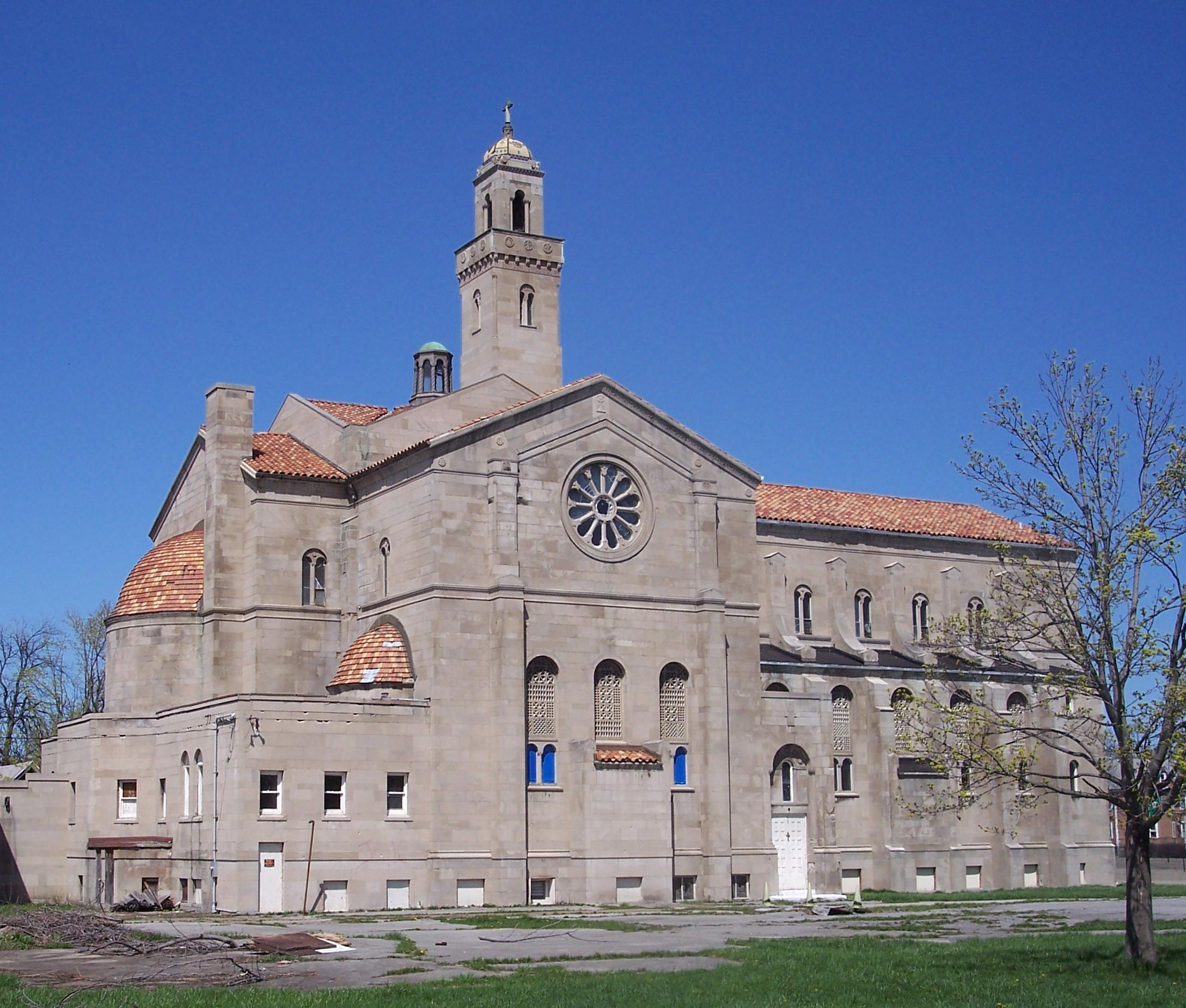 St. Francis de Sales Roman Catholic Church, 407 Northland Ave Buffalo NY